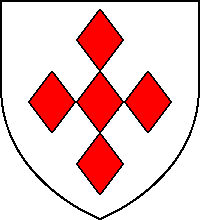 Coat of arms of the Counts of Kessel (County of Kessel, Holy Roman Empire (The Netherlands and Germany))